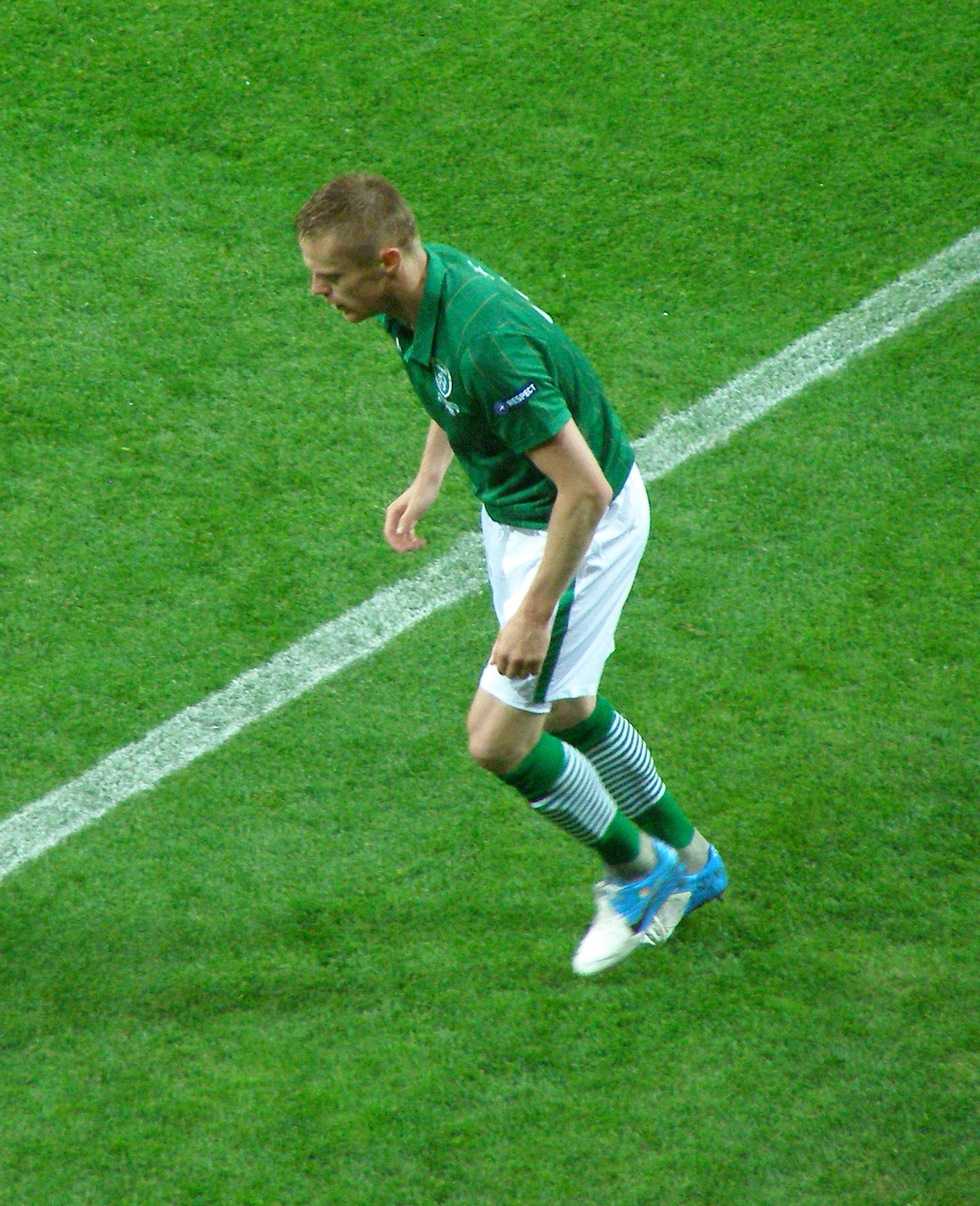 Gdańsk - PGE Arena - Euro 2012 - Group C match Spain - Rep. of Ireland - Damien Duff